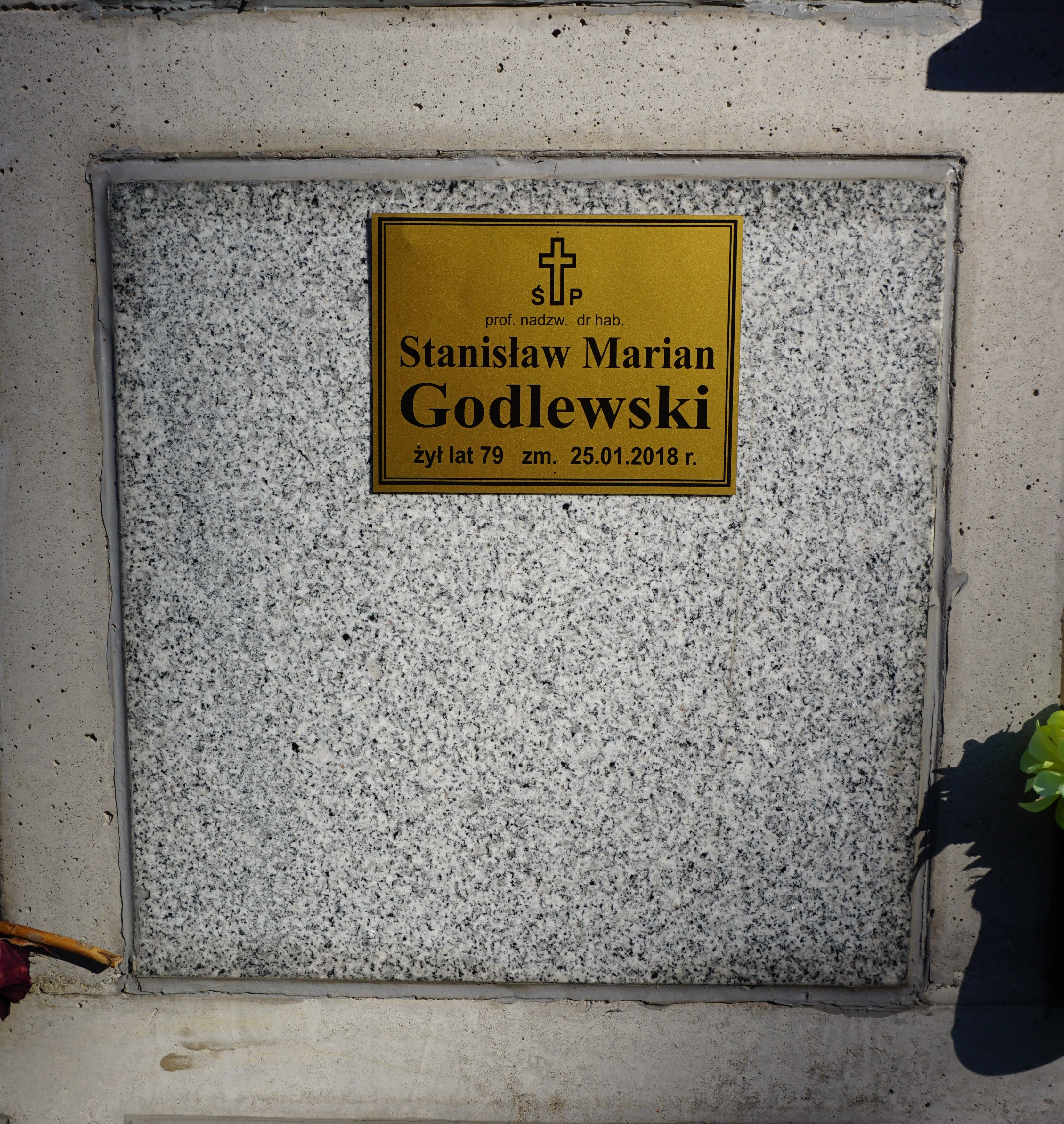 Grave of Stanisław Marian Godlewski at the North Municipal Cemetery in Warsaw (section B-IV-1, row 5, grave 24)